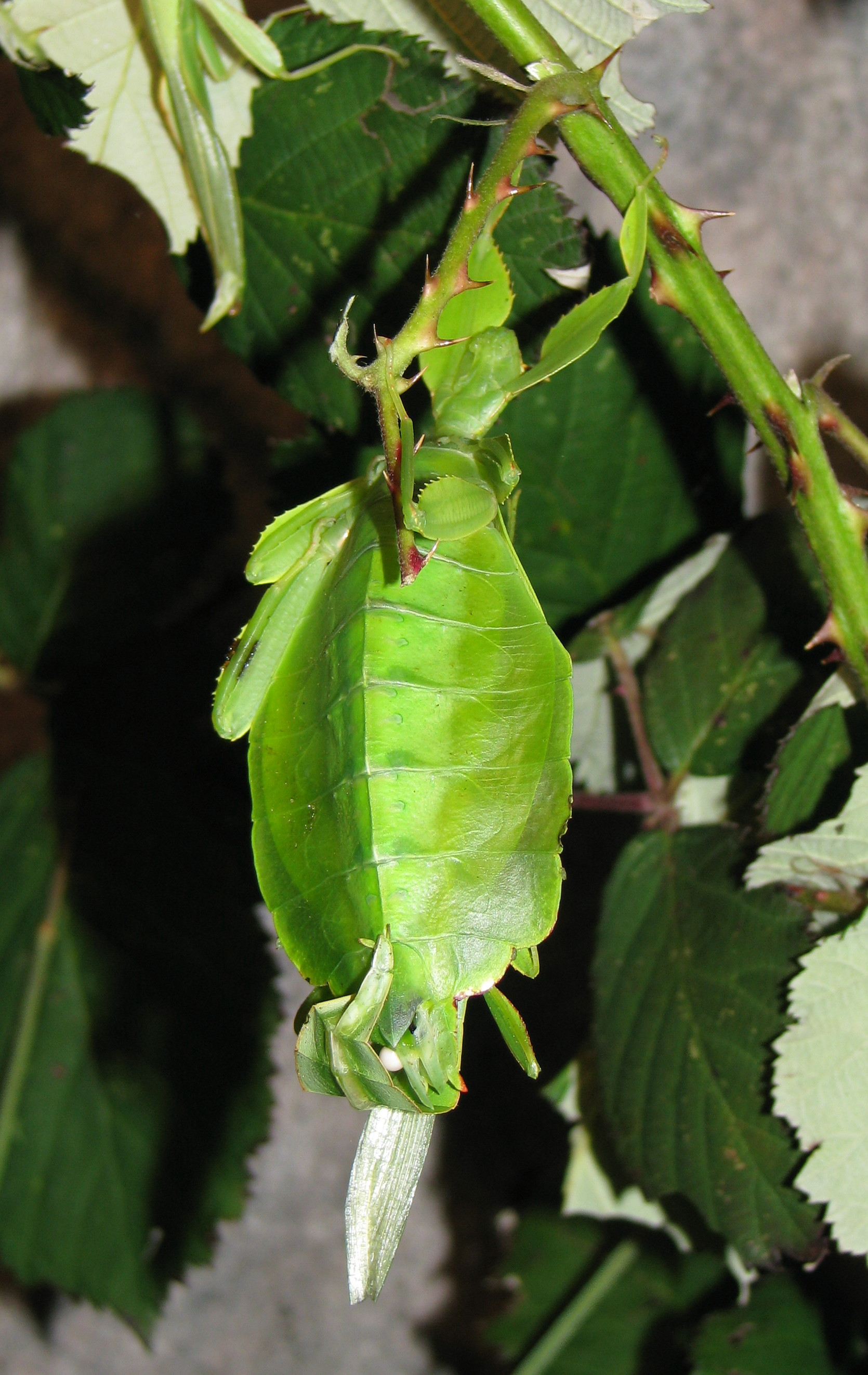 Phyllium philippinicum - Kopulation with Spermatophore (white ball)